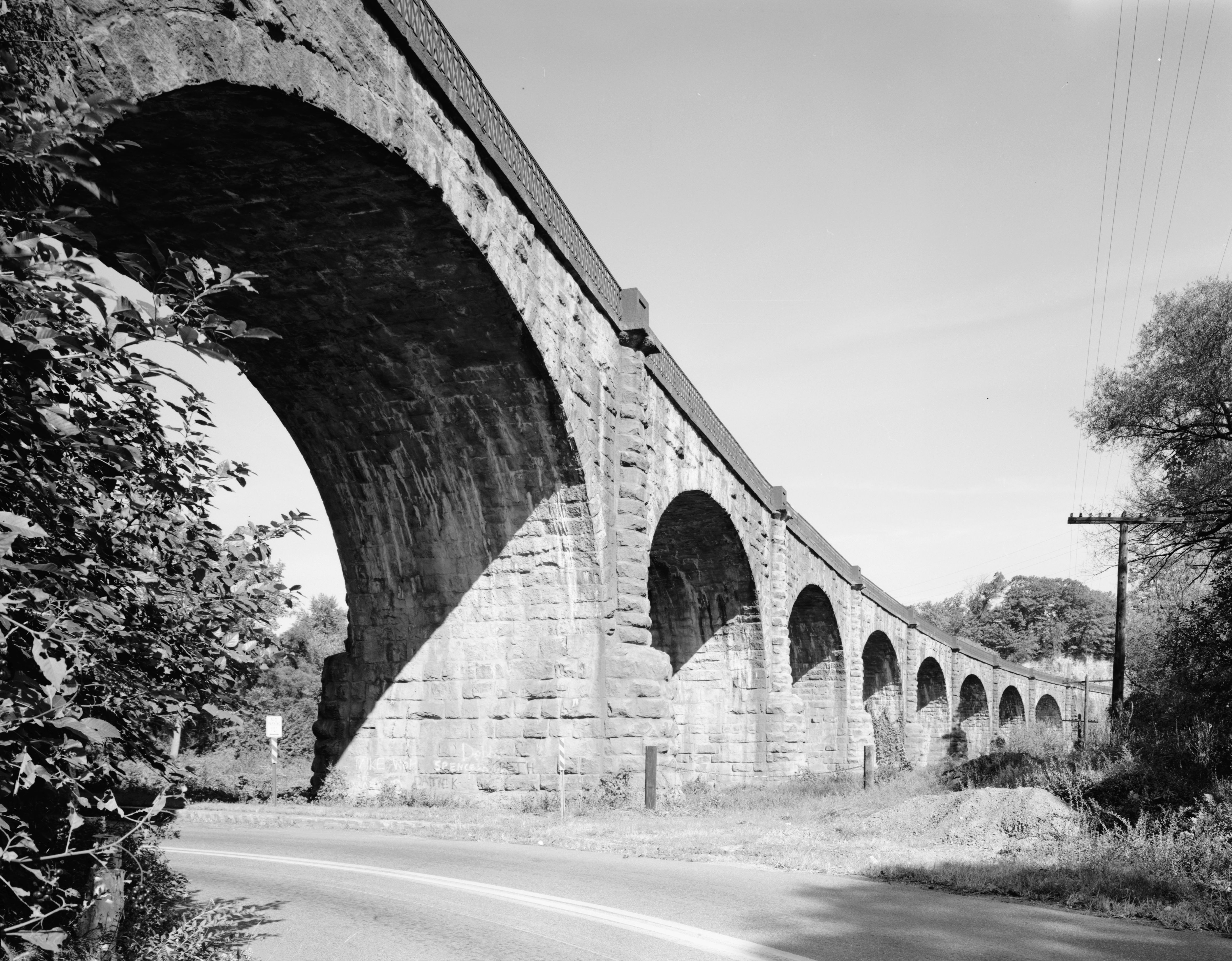 Thomas Viaduct near Relay, Maryland, ground level view looking north, showing east side of viaduct. Cropt from a Historic American Engineering Record photograph by William Edmund Barrett (No. HAER MD,14-ELK,1-8) in 1970.